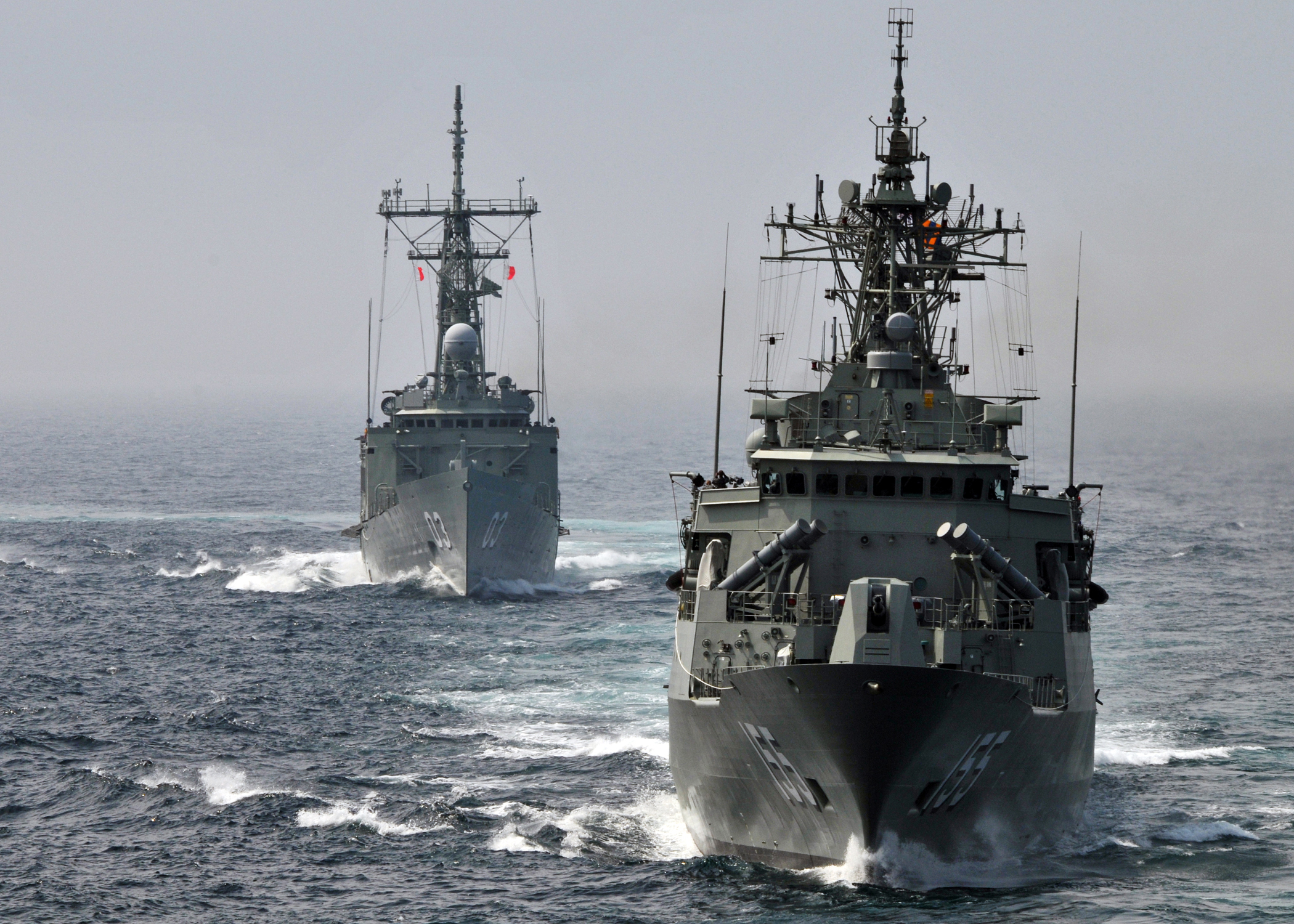 ATLANTIC OCEAN (July 17, 2009) The Royal Australian Navy Adelaide-class guided missile frigate HMAS Sydney (FFG 03) and the Anzac-class frigate HMAS Ballarat (FFG 155) perform formation maneuvering with the guided missile destroyer USS Mahan (DDG 72). Mahan is underway conducting exercises with the Royal Australian Navy during operation Northern Trident 2009. (U.S. Navy photo by Mass Communication Specialist 3rd Class Chad R. Erdmann/Released)